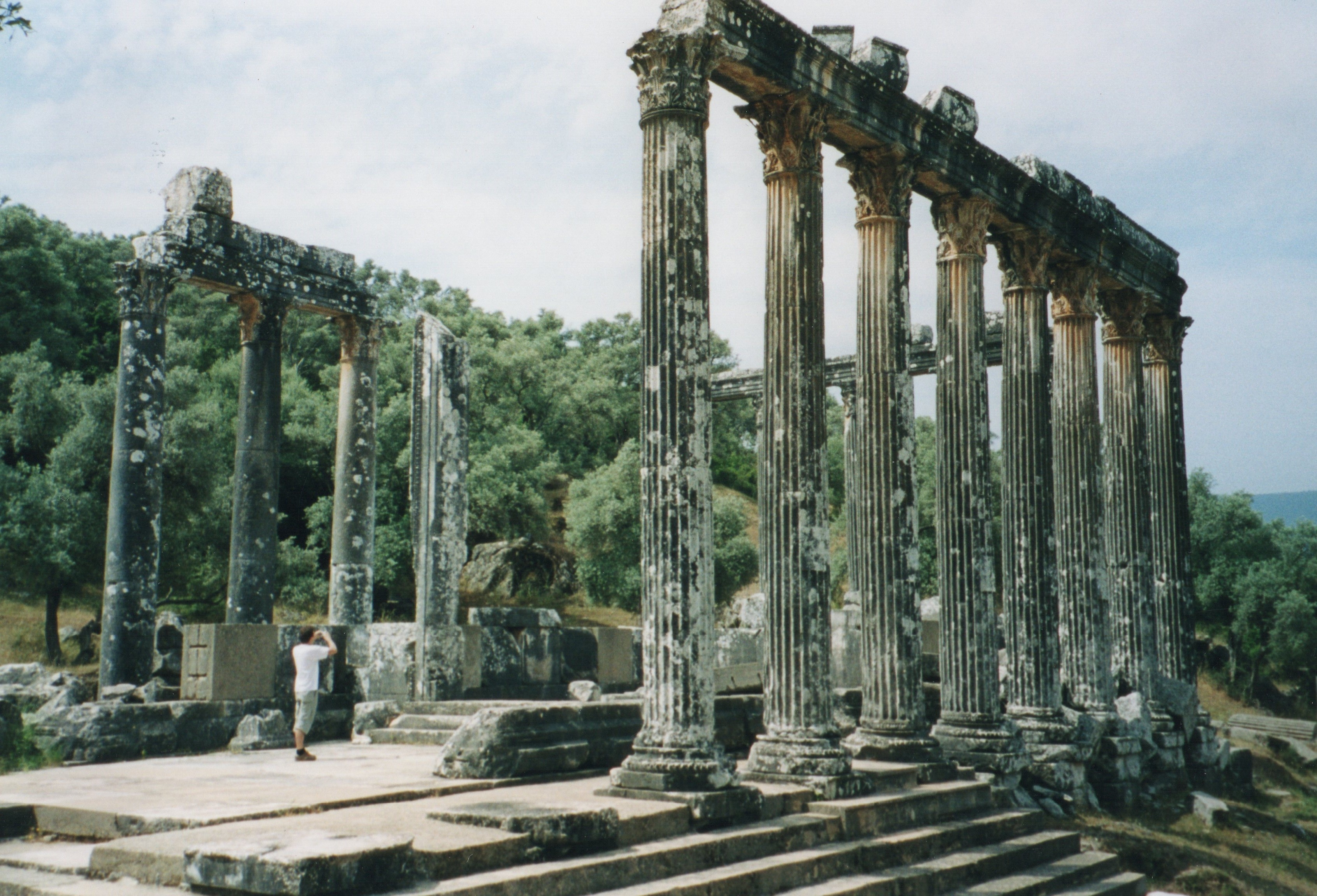 Temple of Zeus at Euromos, ancient city in Caria (Asia Minor)